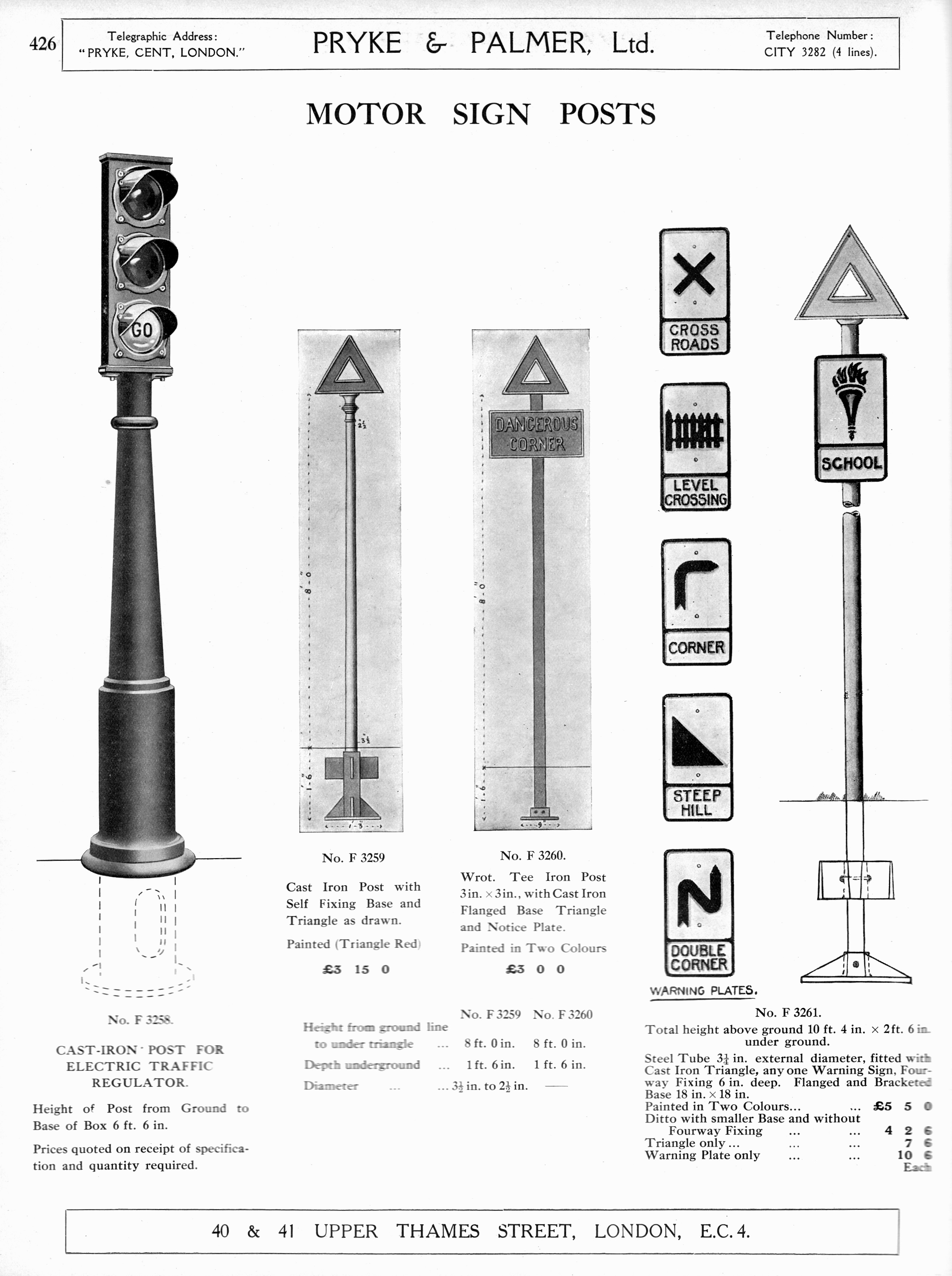 From 1930 General Catalogue No. 330. Pryke & Palmer Ltd., Upper Thames St., London E.C.4.